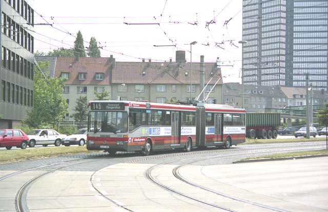 Essen Tramways: Duobus on Route 145